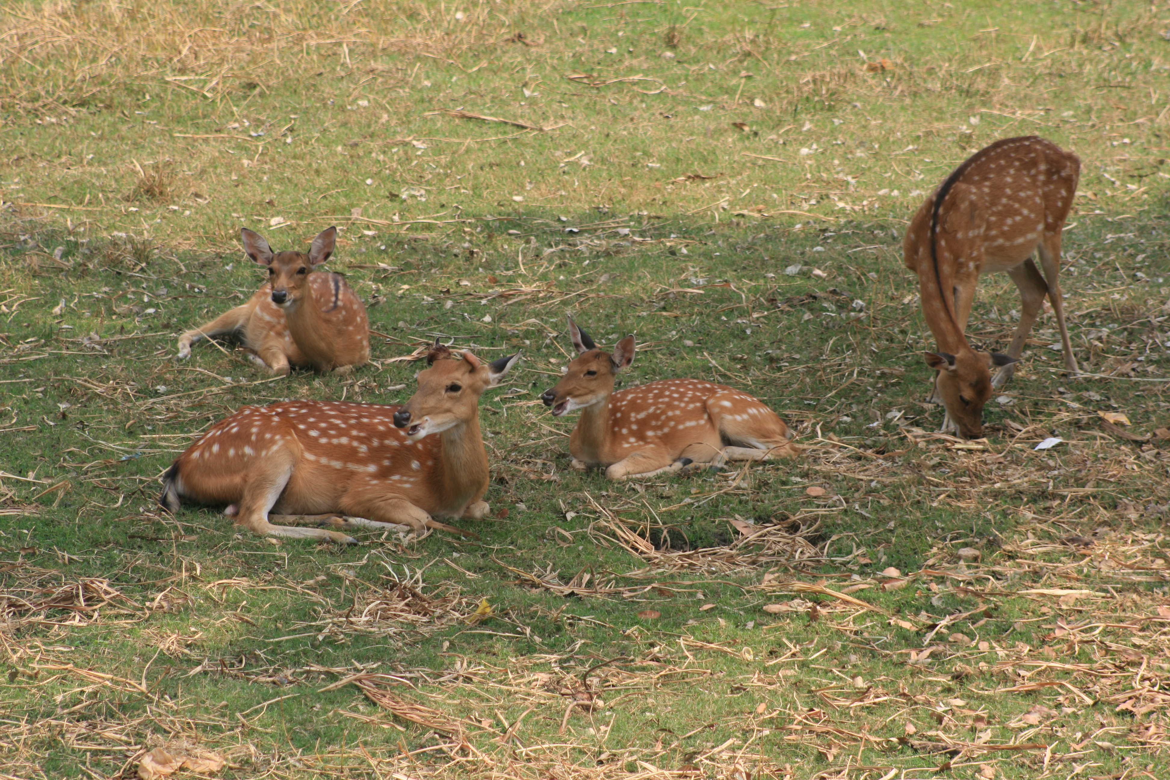 Cervus nippon at Damsen Park, Hochiminh City-Vietnam